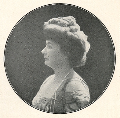 Princess Louise Sophie of Schleswig-Holstein-Sonderburg-Augustenburg, wife of Prince Friedrich Leopold of Prussia